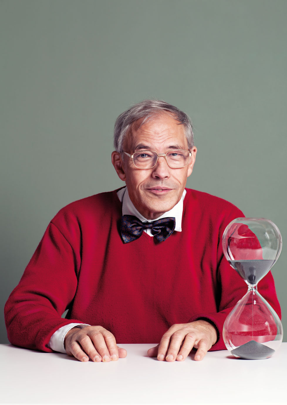 Portrait of Holger Bech Nielsen